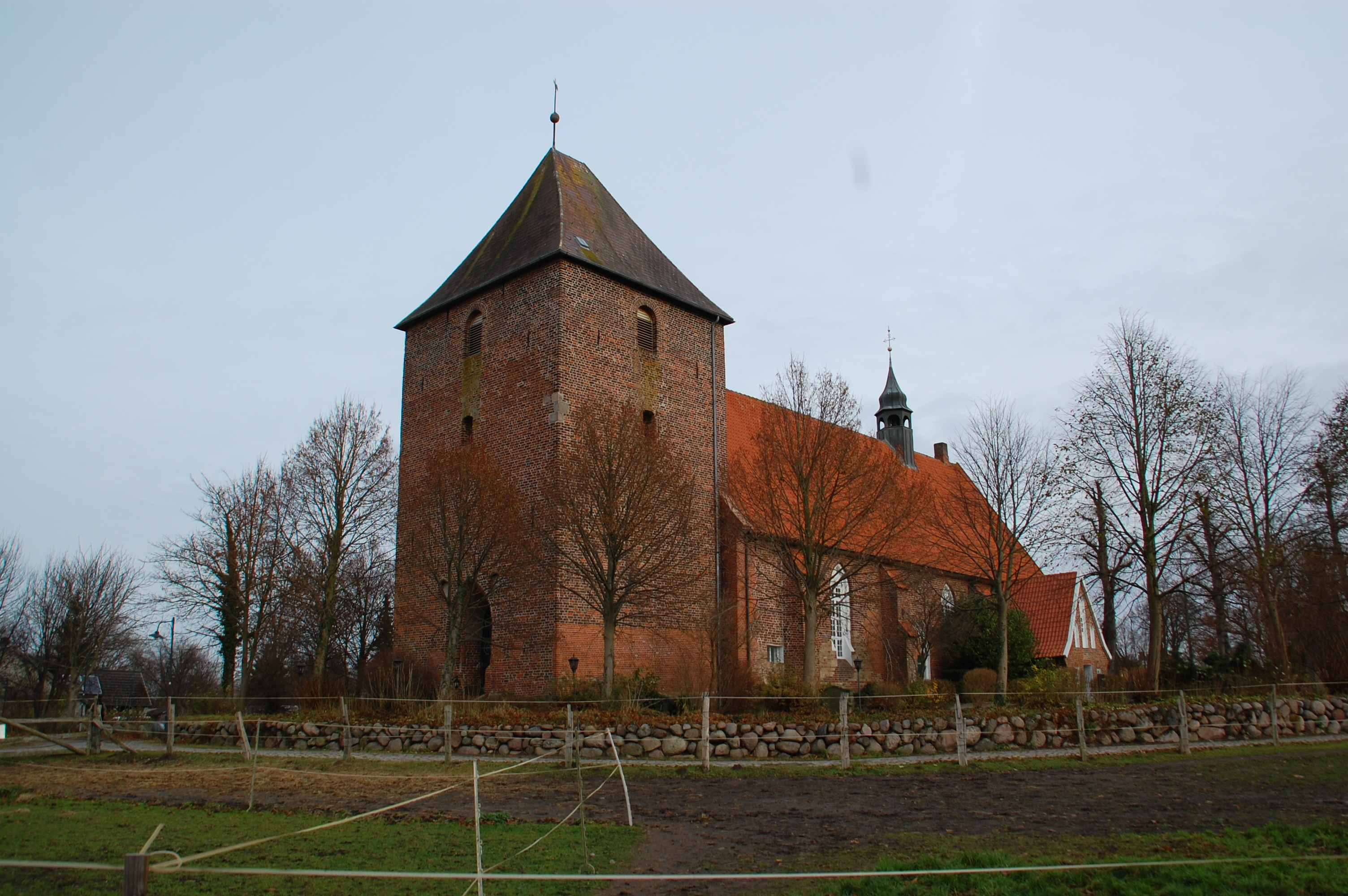 Church and graveyard in Grube (Holstein), Germany